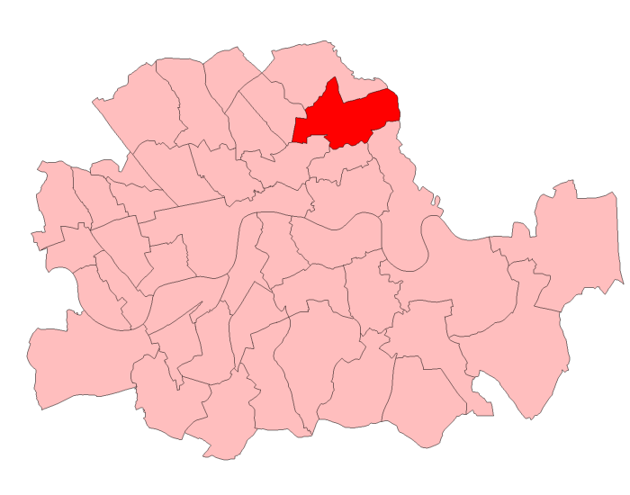 A map of Hackney South constituency within the London County Council area, as it existed from 1950 to 1955.